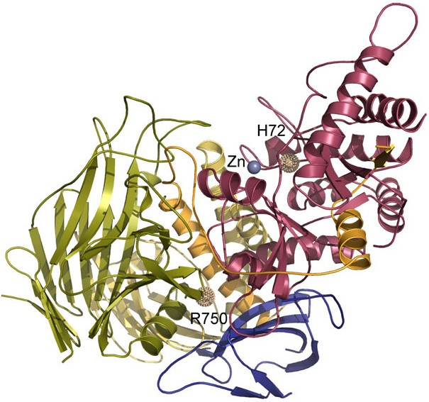 α-Mannosidase